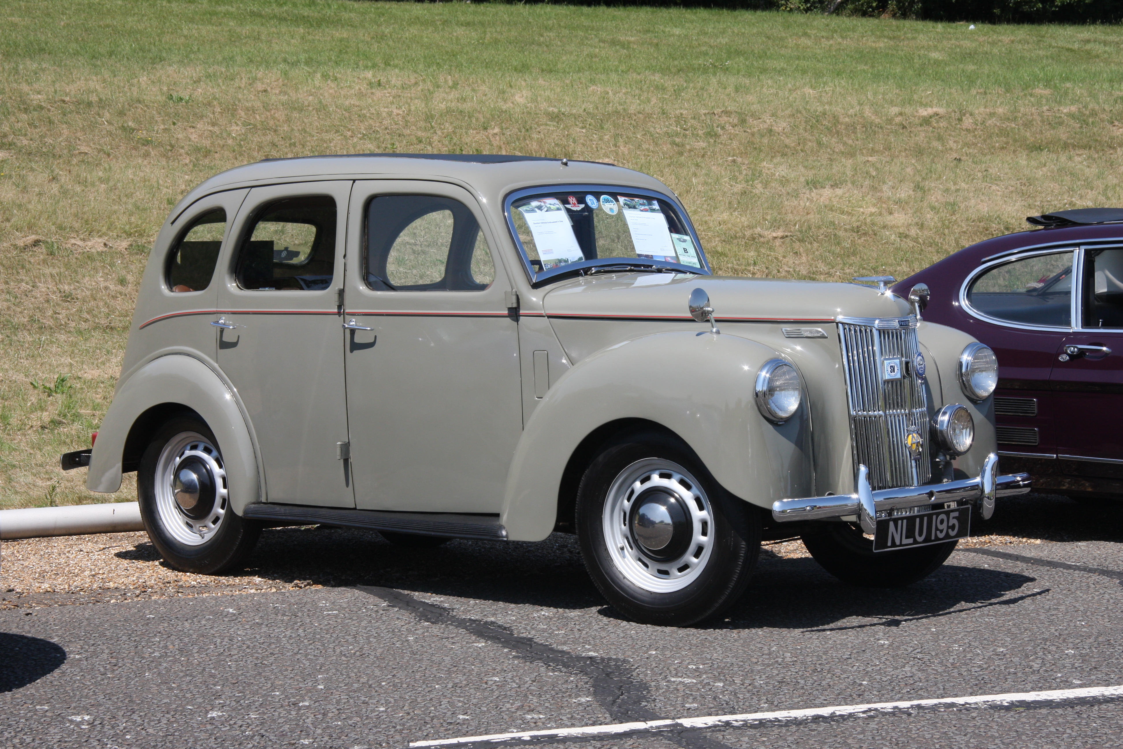 Ford Prefect E493A